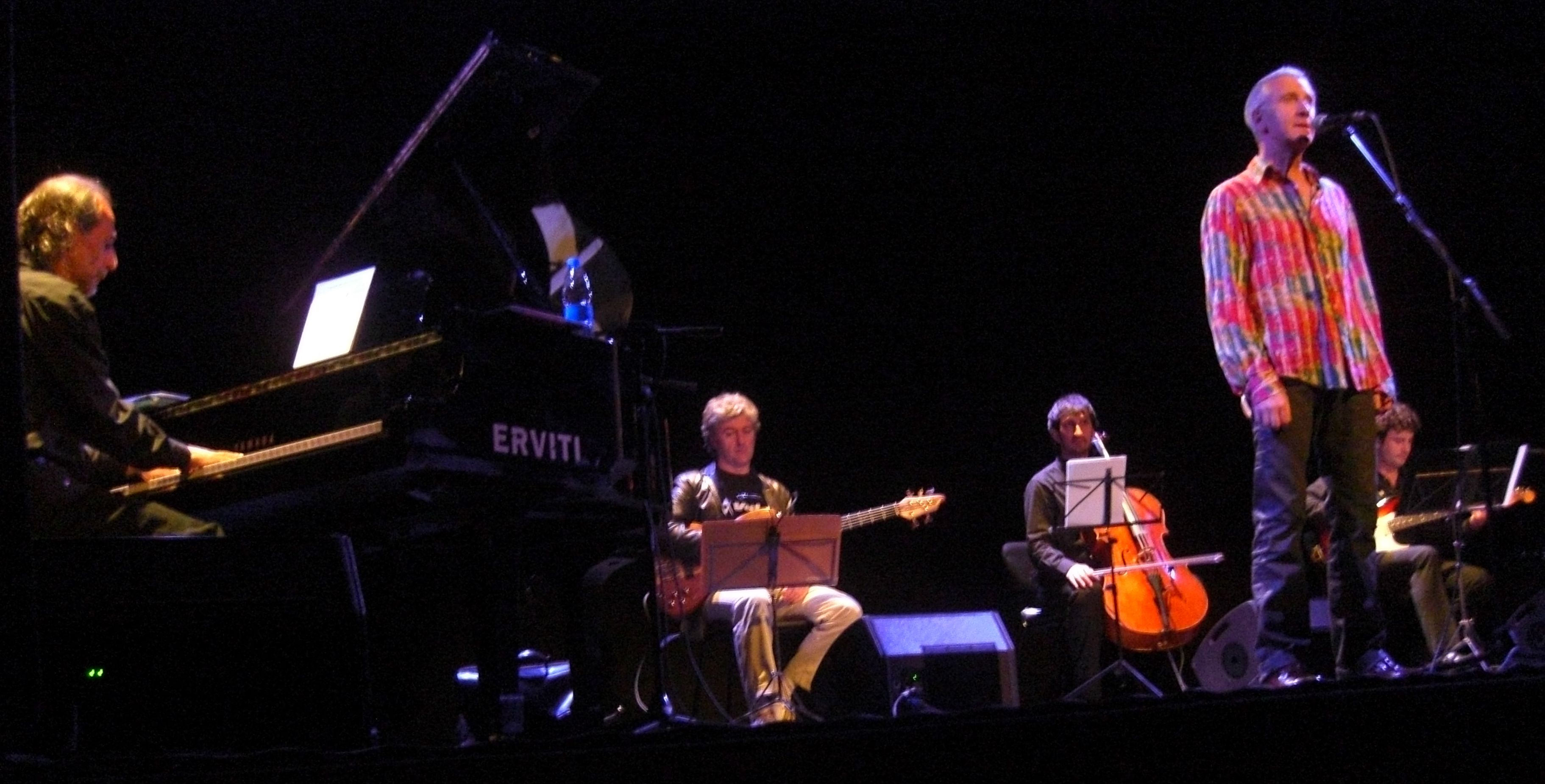 Pier Paul Berzait basque singer and his music group.